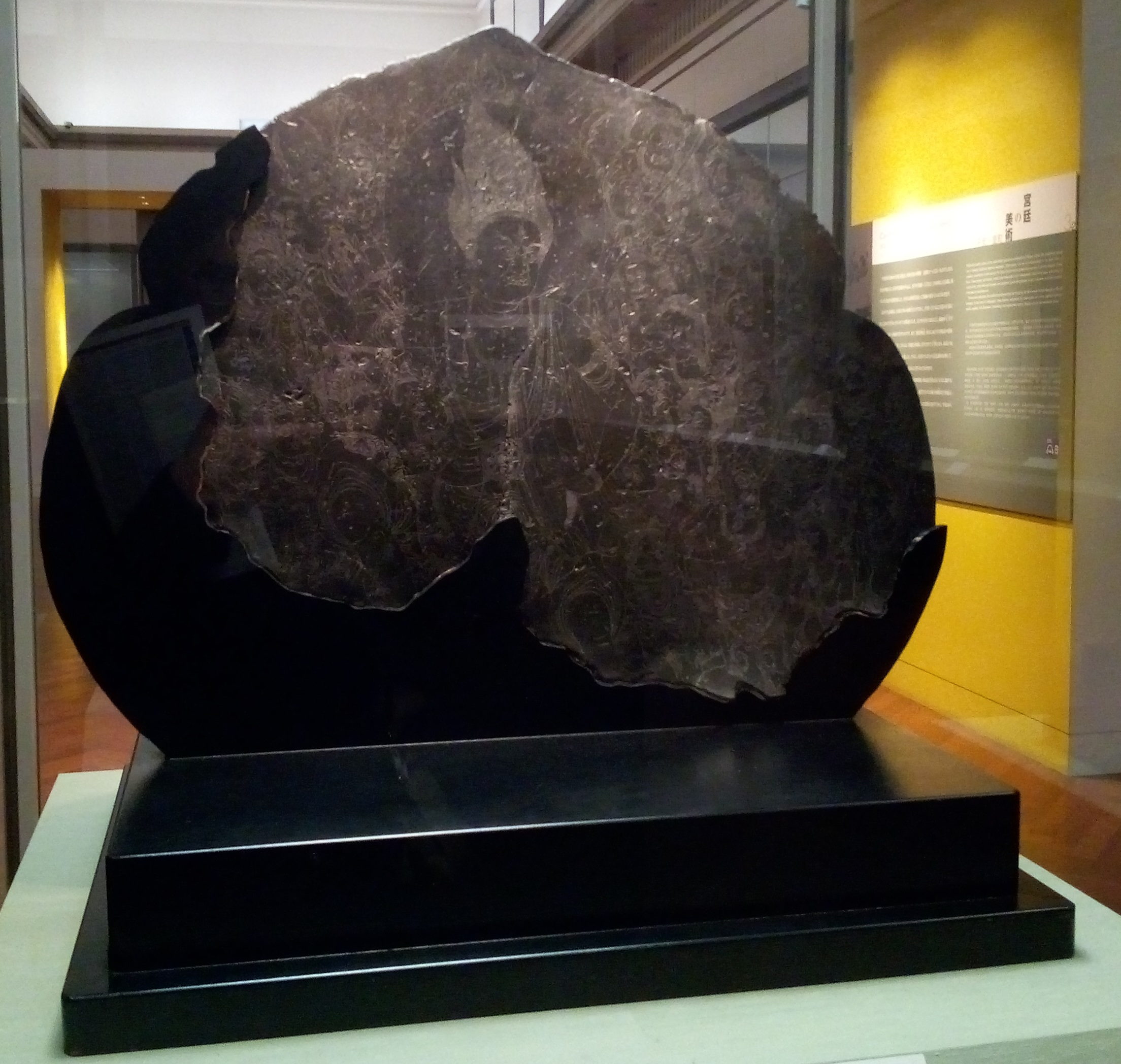 Cast bronze plaque with line-engraved Zaō Gongen, dated from 1001 (Heian period). Excavated from Kinpusen, Tenkawa-mura, Yoshino-gun, Nara. Owned by Nishiarai Daishi Souji-ji, Tokyo, and lent to the Tokyo National Museum for exhibition.